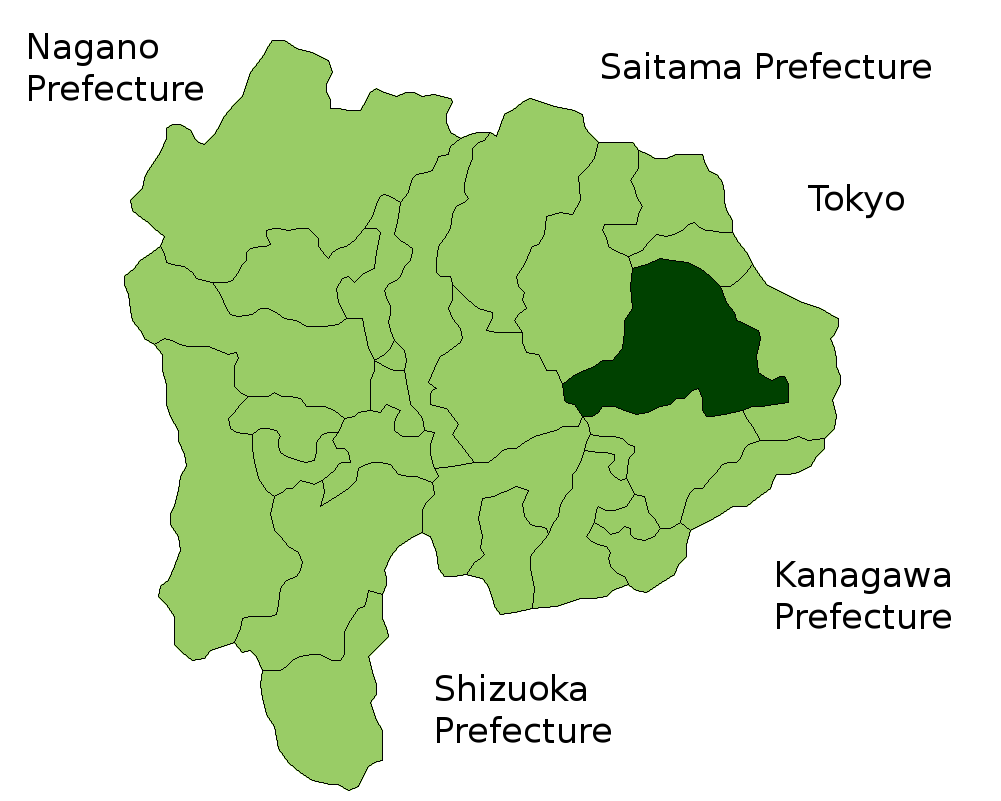 Location Map of Otsuki in Yamanashi Prefecture, Japan